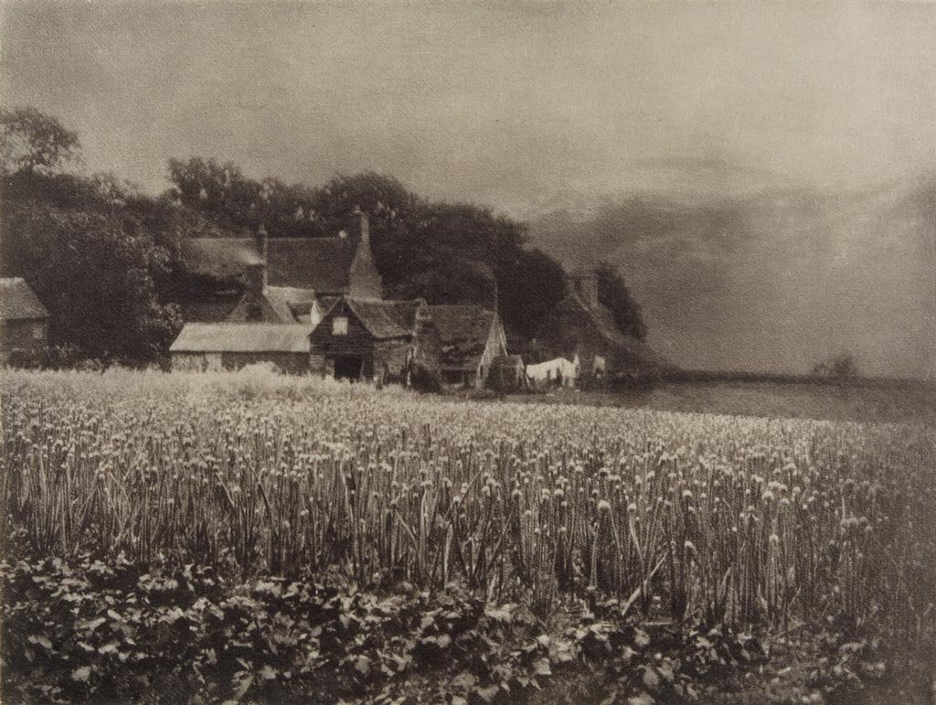 The onion field